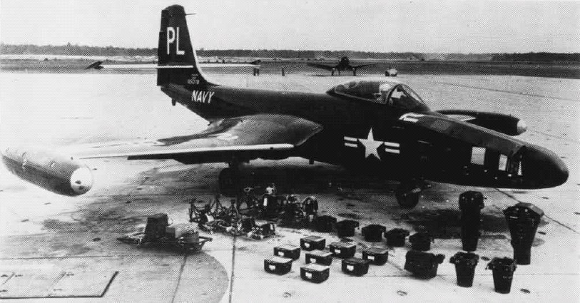 Camera equipment of a McDonnell F2H-2P Banshee of U.S. Navy composite squadron VC-62 in the early to mid-1950s. A Vought F4U Corsair taxies in the background.